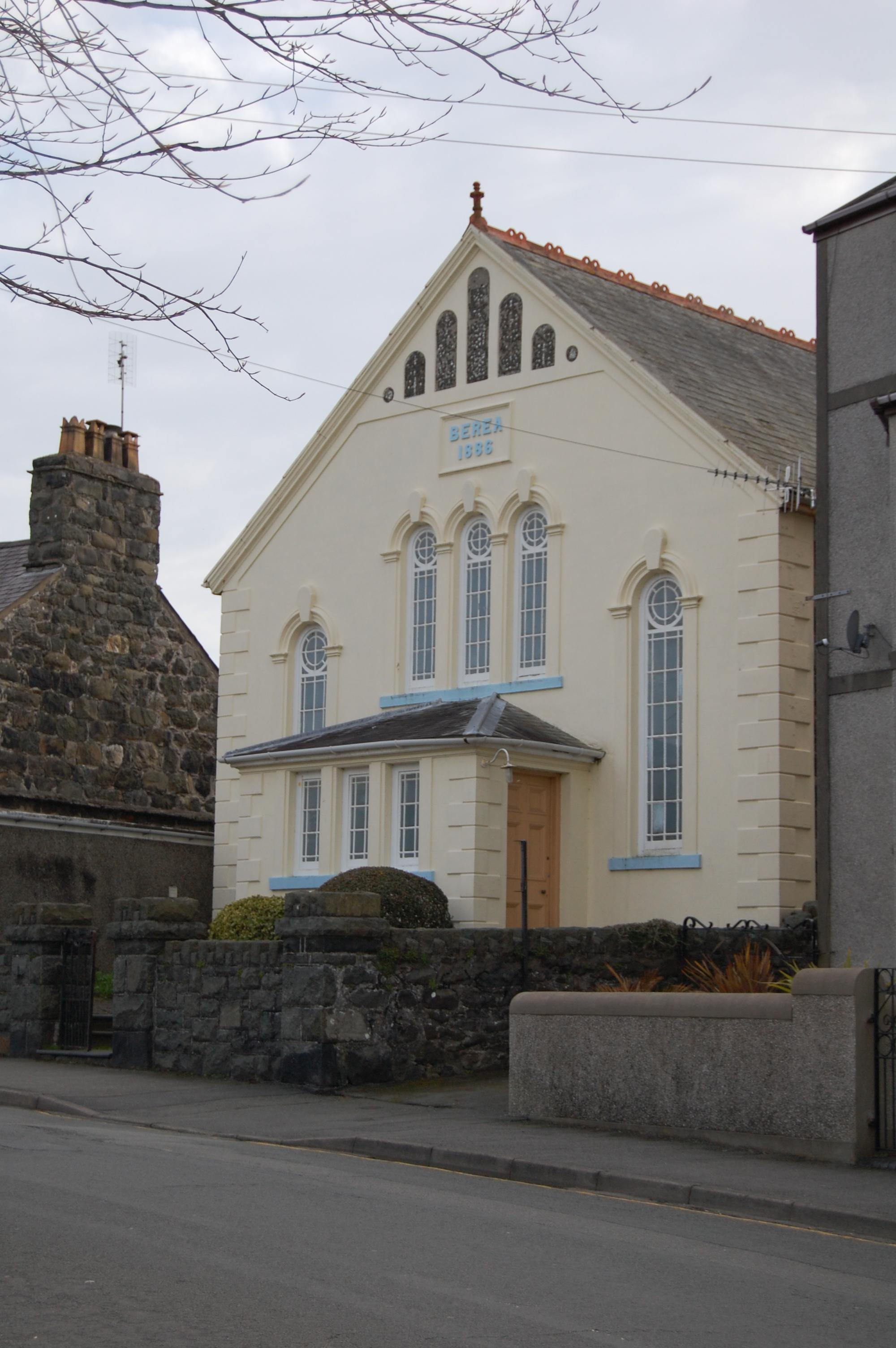 Criccieth - Berea In 1841 the Scotch Baptist congregation at Capel Uchaf in Criccieth broke away to become Particular Baptists, followers of Alexander Campbell and the Disciples of Christ. 1886 saw them move to their new home at Berea on Tan-y-Grisiau Terrace, and in 1939 they joined the mainstream Baptists.